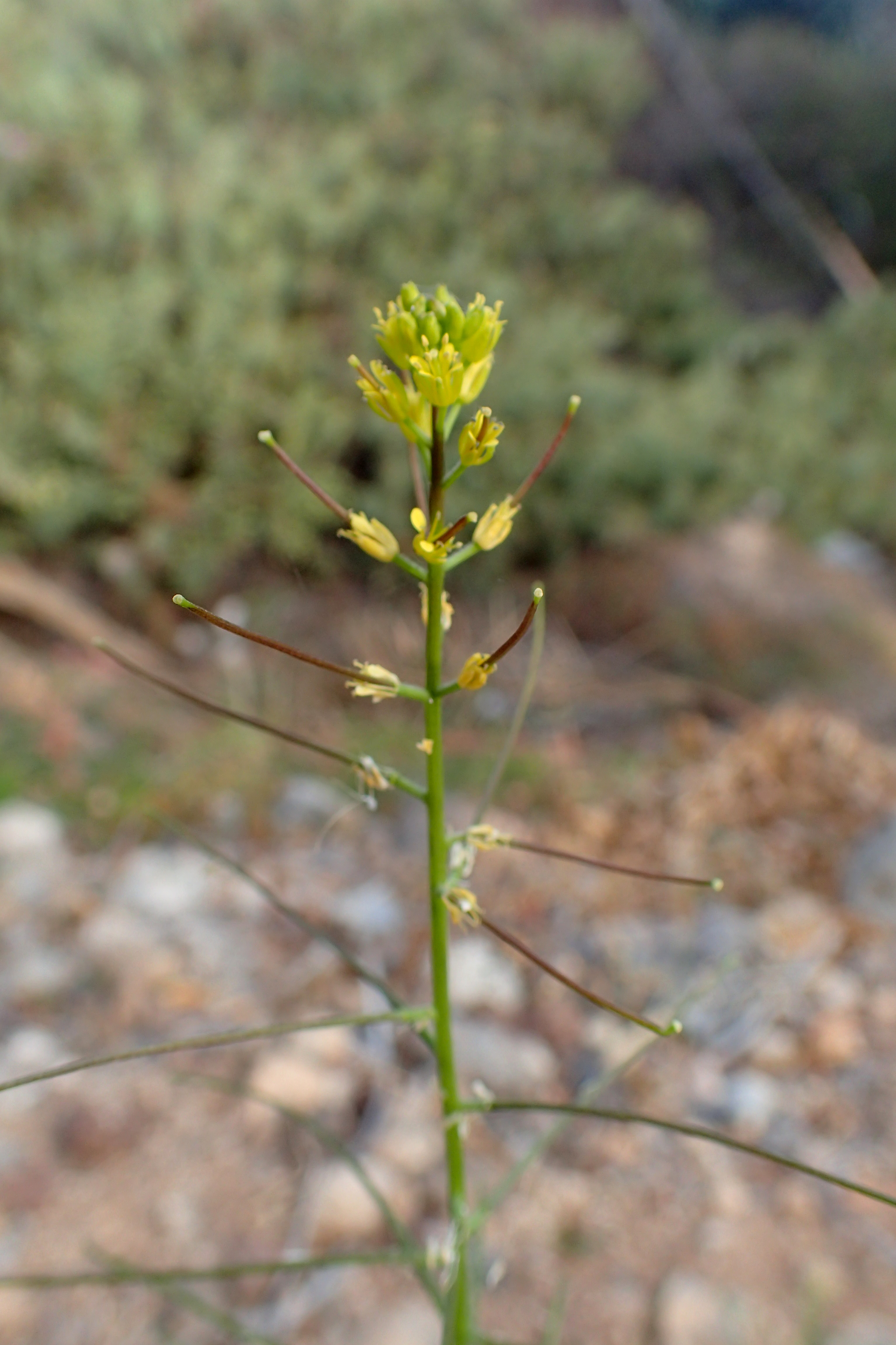 Sisymbrium erysimoides in Callao Salvaje, Tenerife